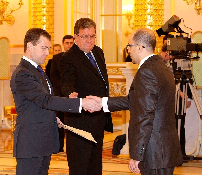 THE KREMLIN, MOSCOW. Presentation of foreign ambassadors’ letters of credence. Ambassador of the Republic of Macedonia Ilija Isajlovski presents his letter of credence to the President.